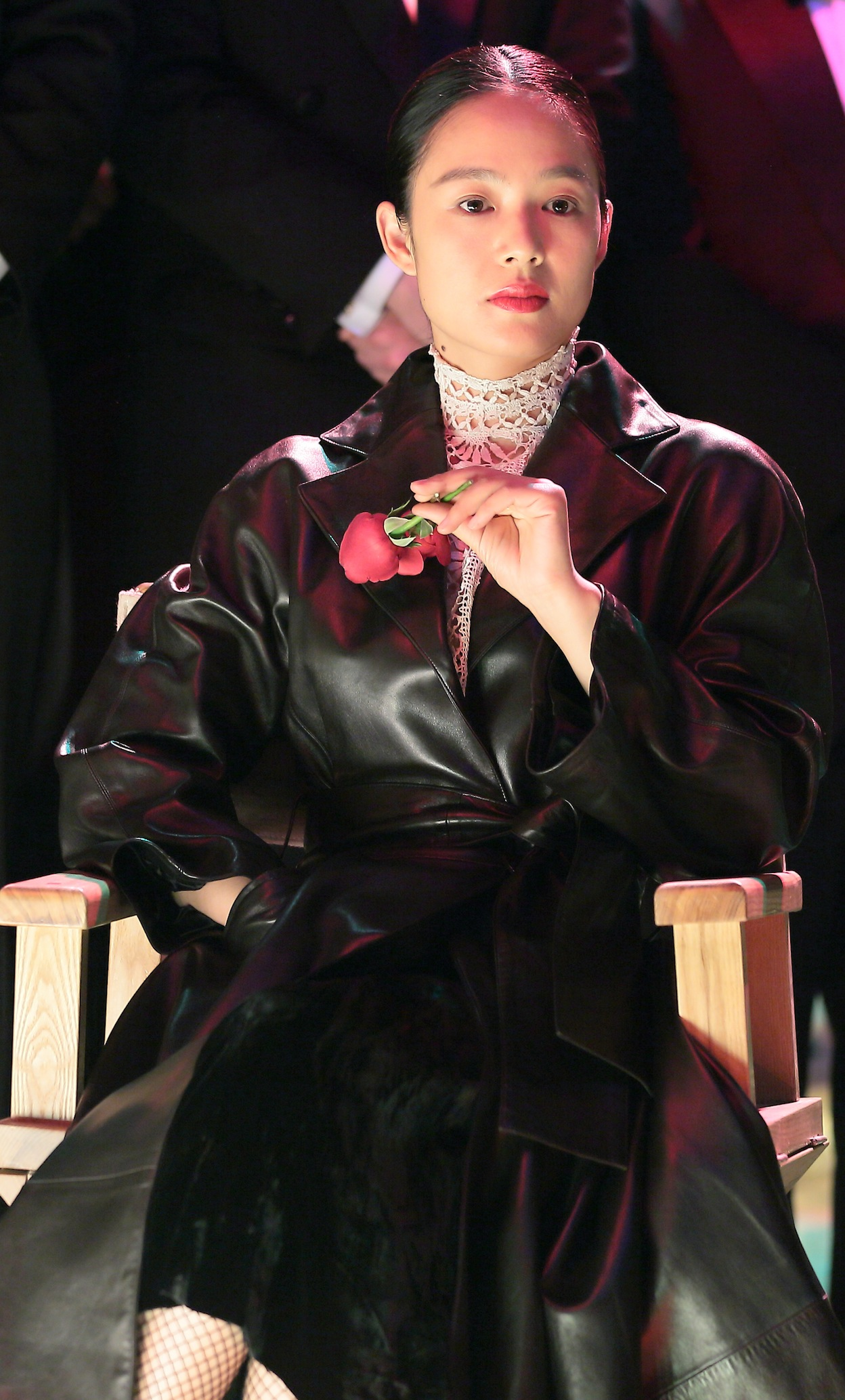 Zhou Yun played Wuliu in director Jiang wen's Gone with bullet